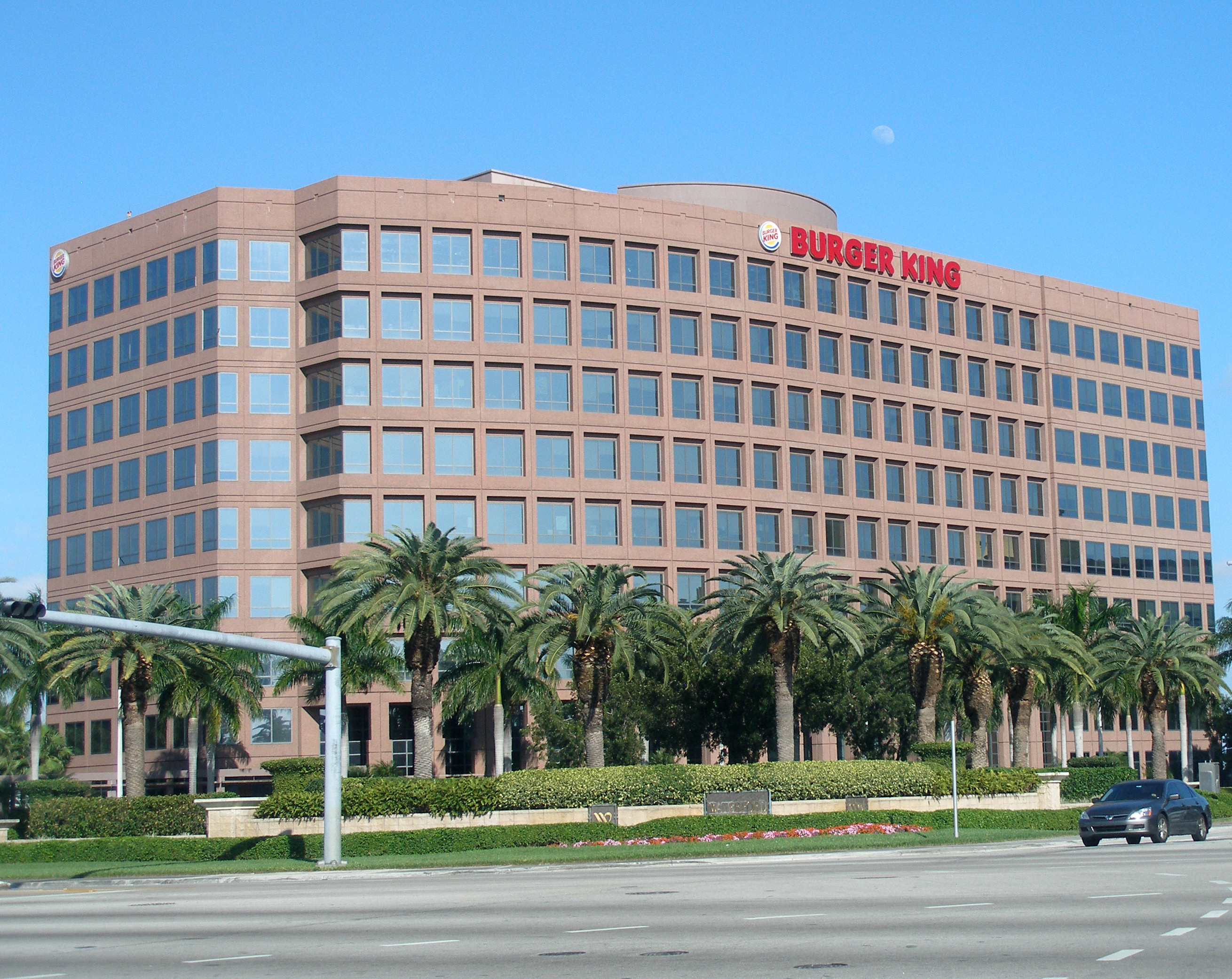 Burger King headquarters in unincorporated area Miami-Dade County.